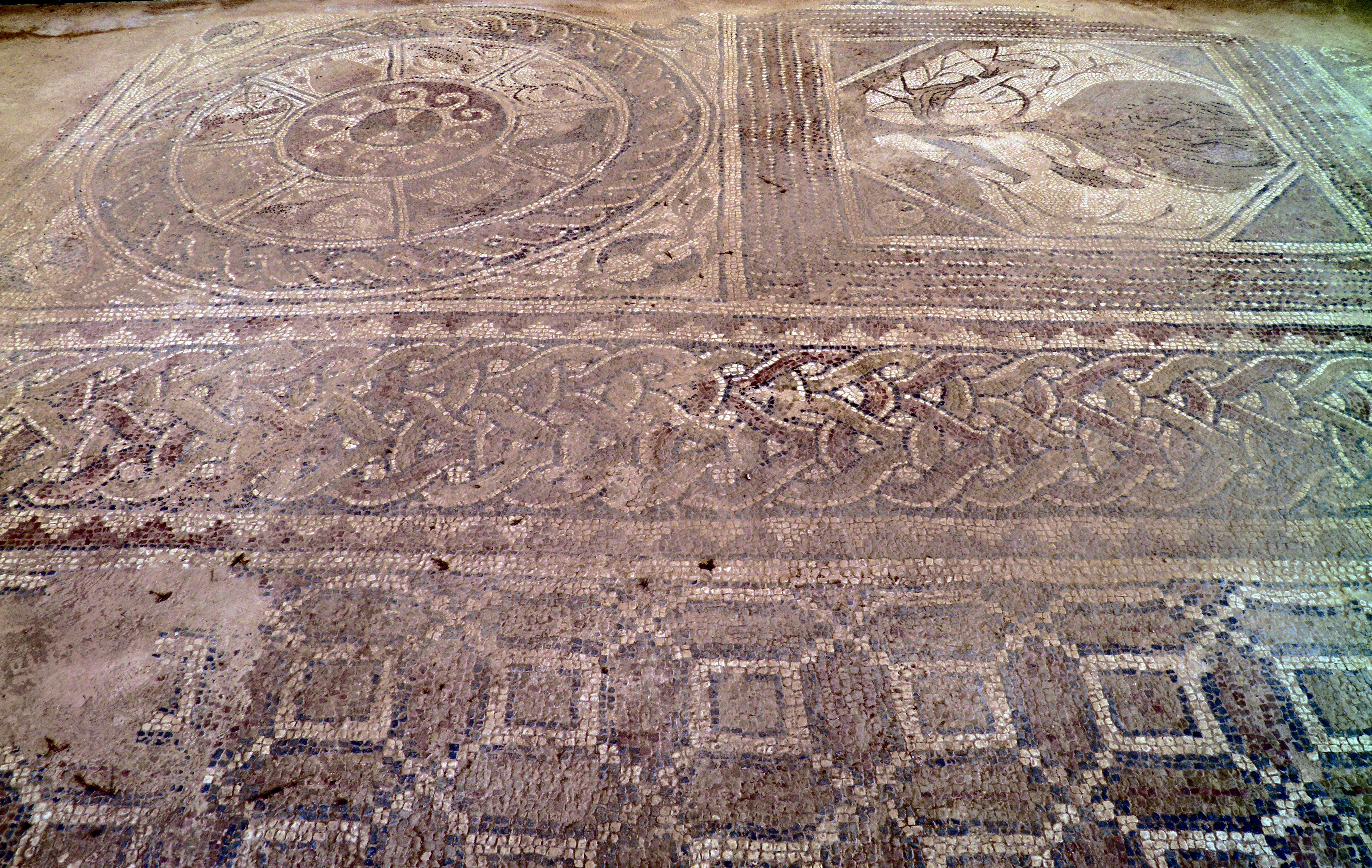 Mosaic in the Octagonal Basilica, Philippi